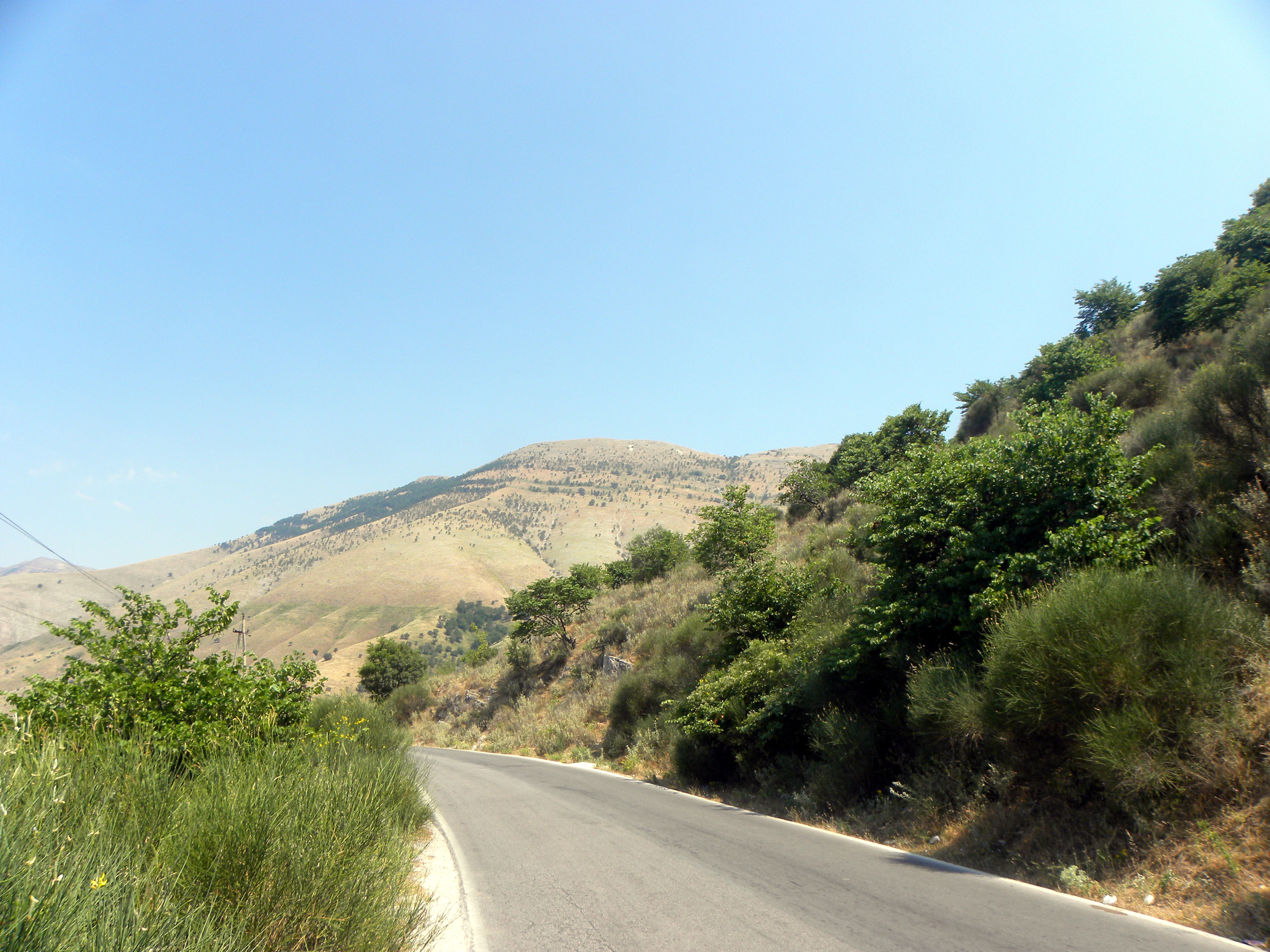 On the road to Gjirokaster